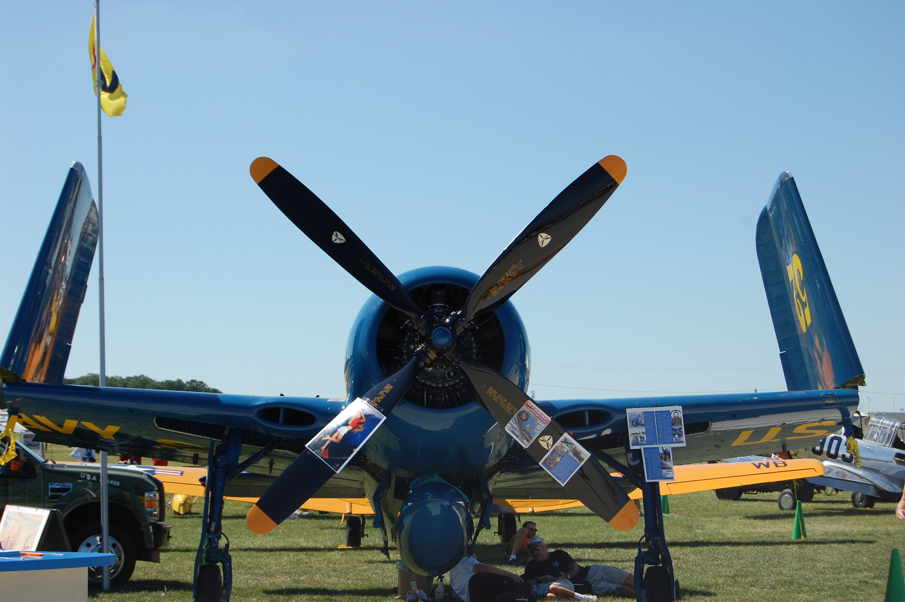 A blue angels Grumman F8F Bearcat